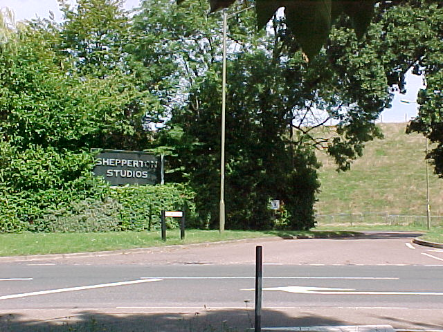 Entrance to Shepperton Studios, Studios Road, Littleton, (postally in Shepperton), Surrey. In the background is part of the embankment around the Queen Mary Reservoir. The view is from the junction of New Road, Squire's Bridge Road and Studios Road.